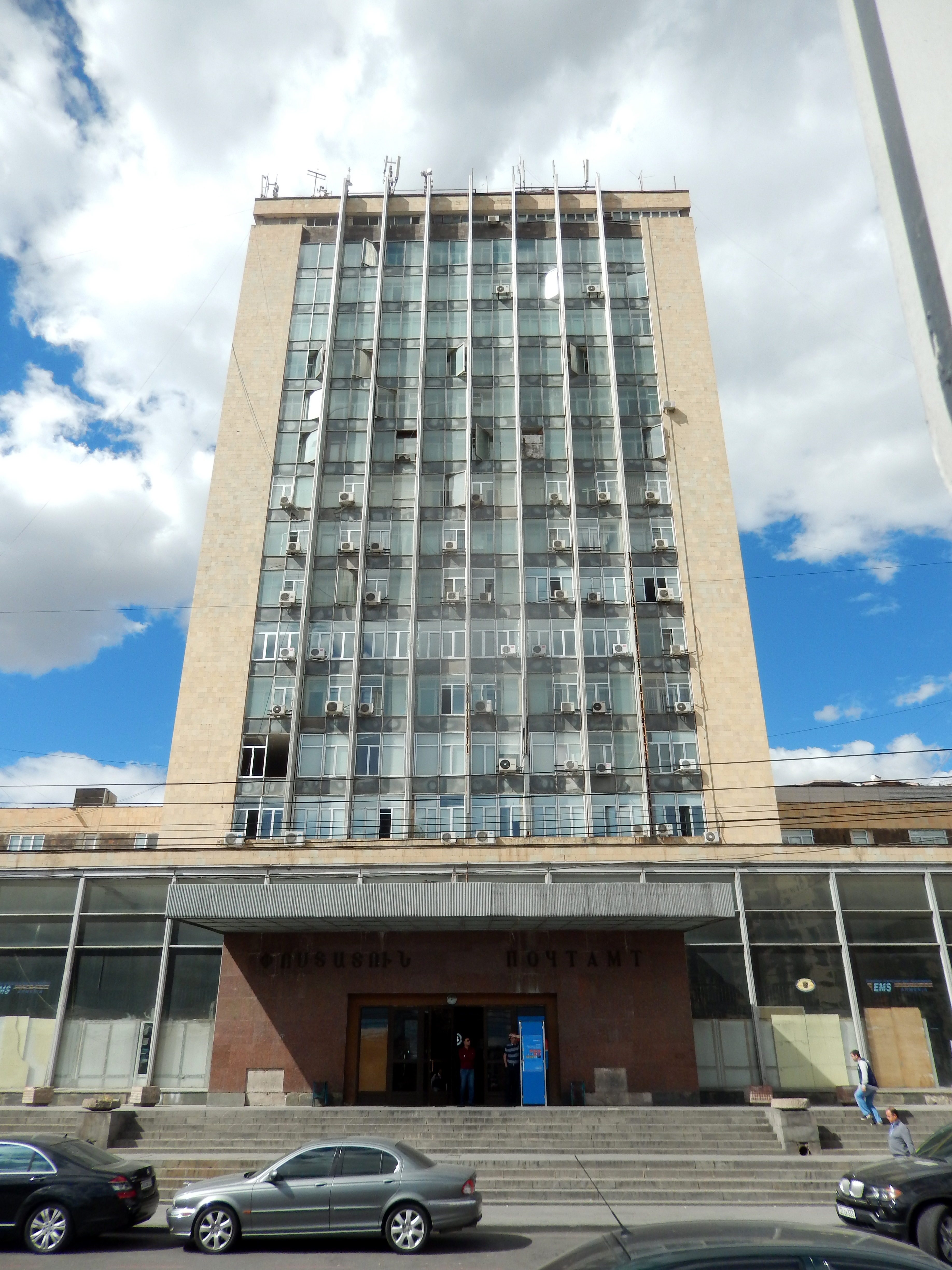 Buildings in Yerevan